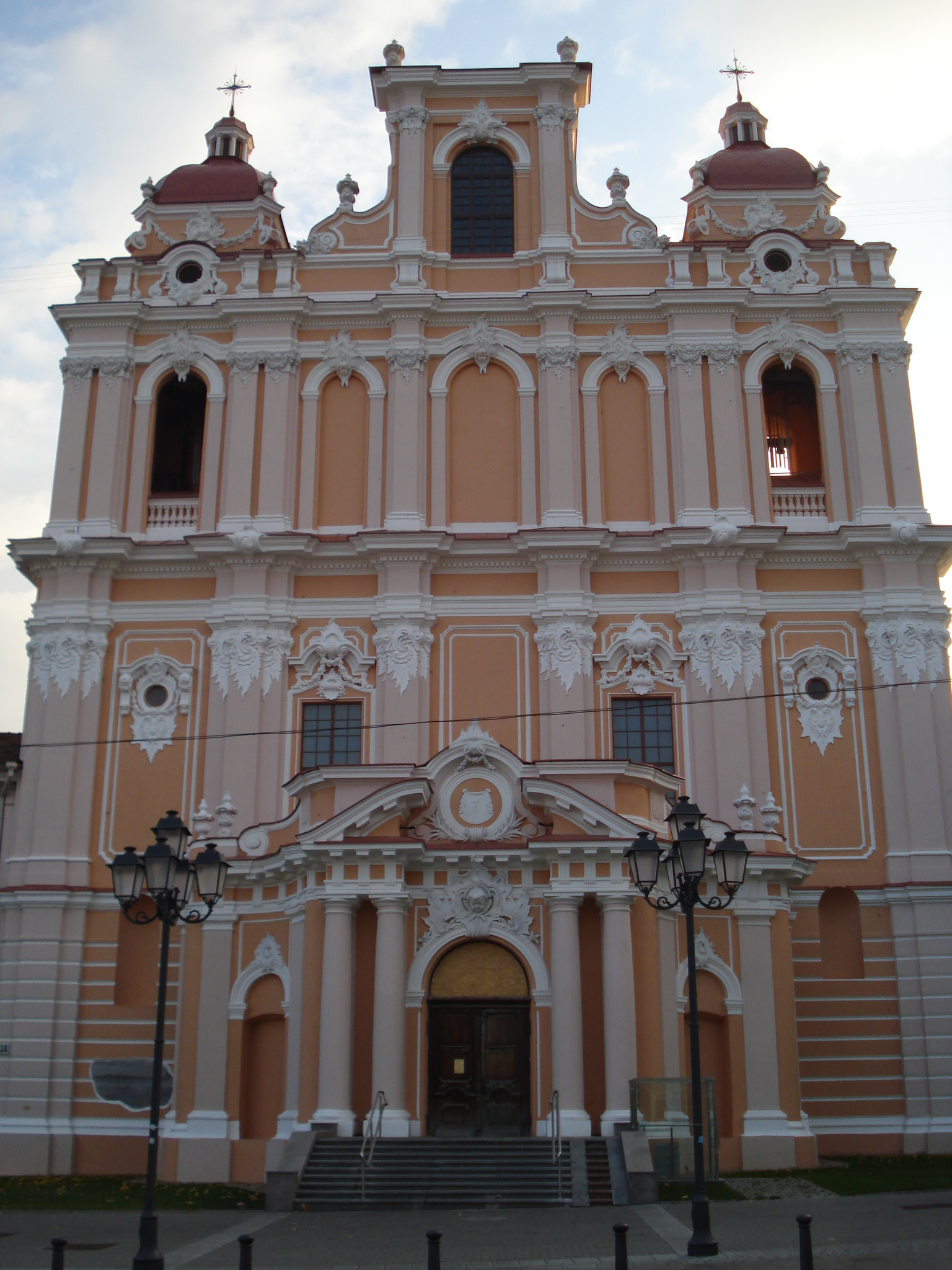 Main facade of the Church of St. Casimir (Šv. Kazimiero bažnyčia) in Vilnius after renovation (Didžioji g. 34)